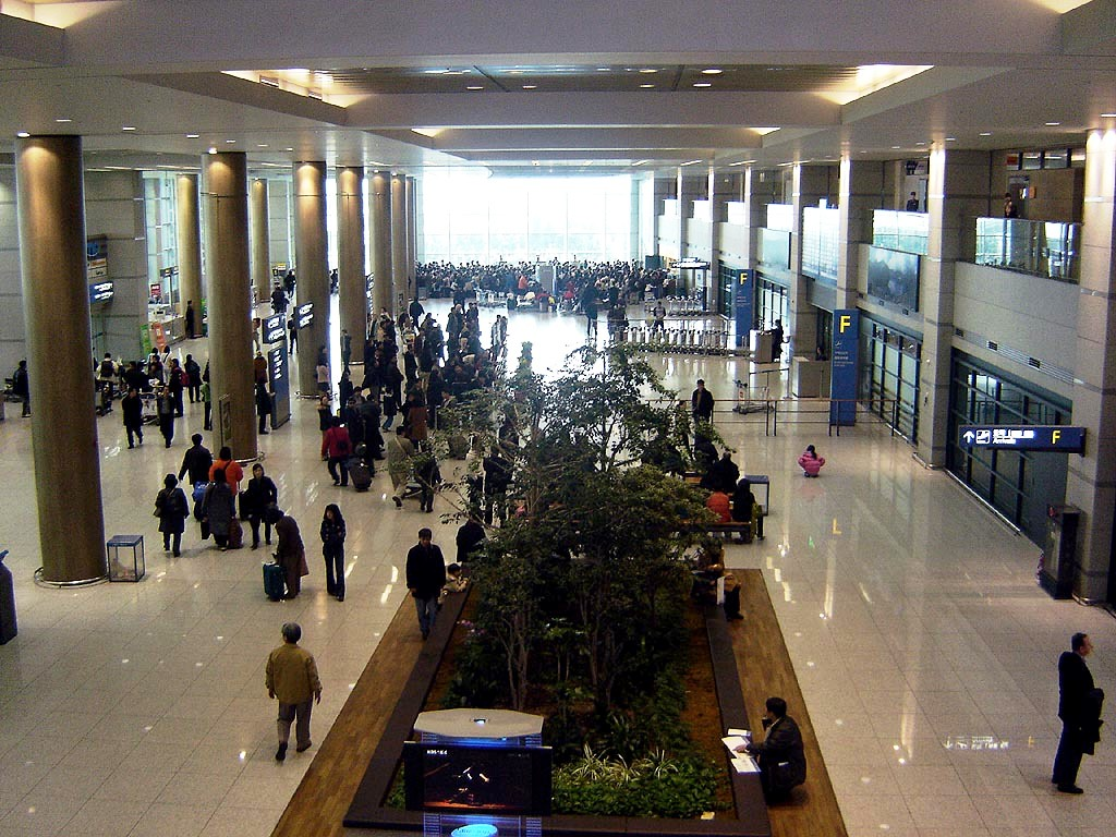 Arrivals at Incheon Airport